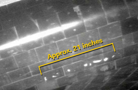 STS-125 Post-Mission Management Team Briefing Materials, Starboard Chine Tile Damage.